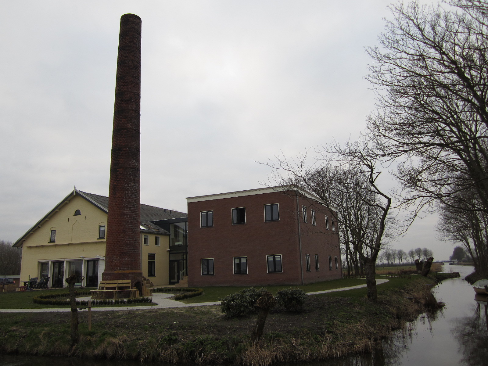 Bartlehiem (county Friesland, The Netherlands). Former Dairy.